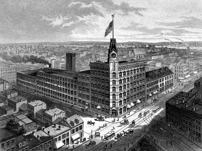 R. Hoe & Co's printing press and saw manufactory.